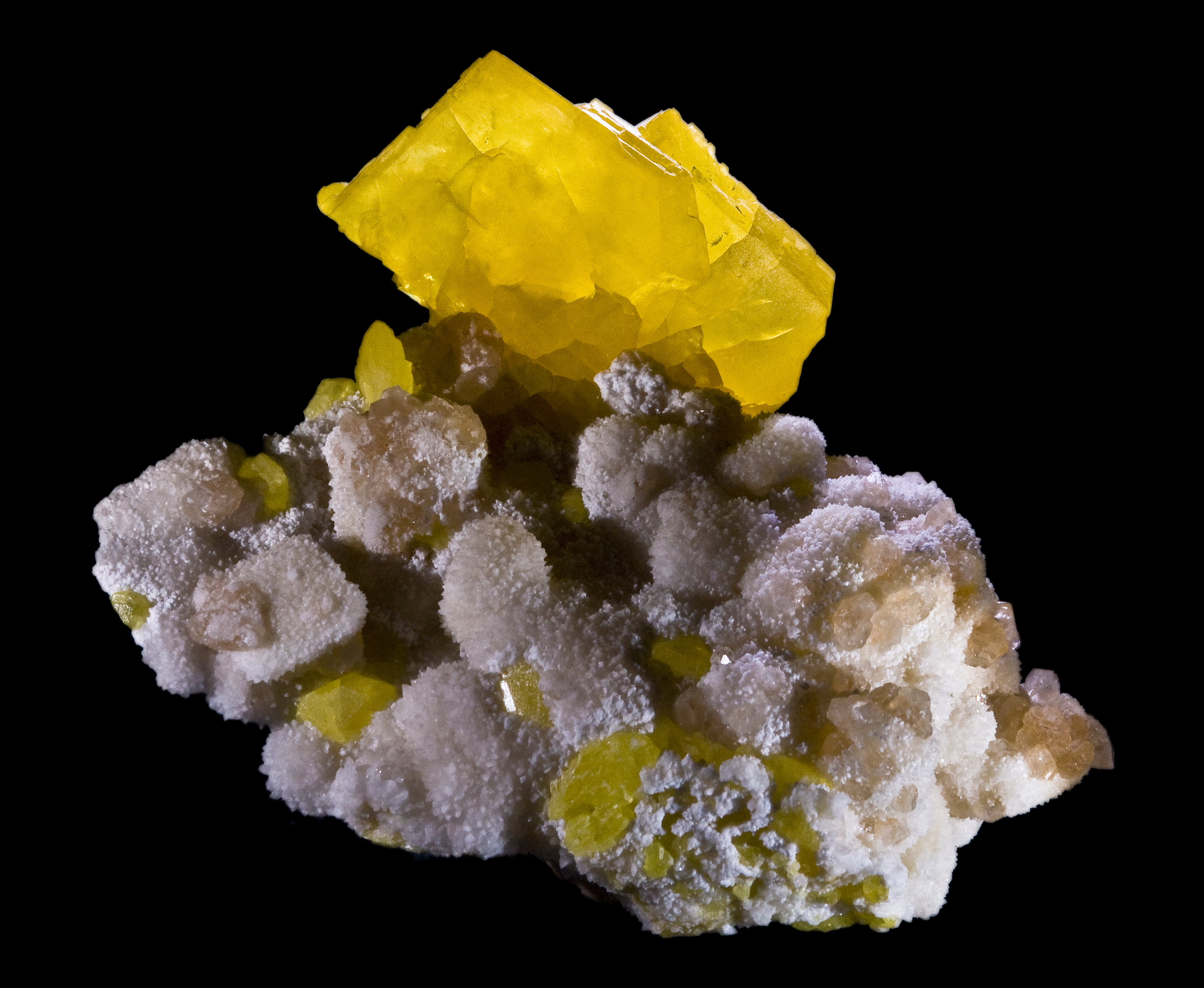 Sulphur - aragonite and celestine Locality : Floristella Mine, Valguarnera, Enna Province, Sicily, Italy Size : 12.5 x 10.2 cm